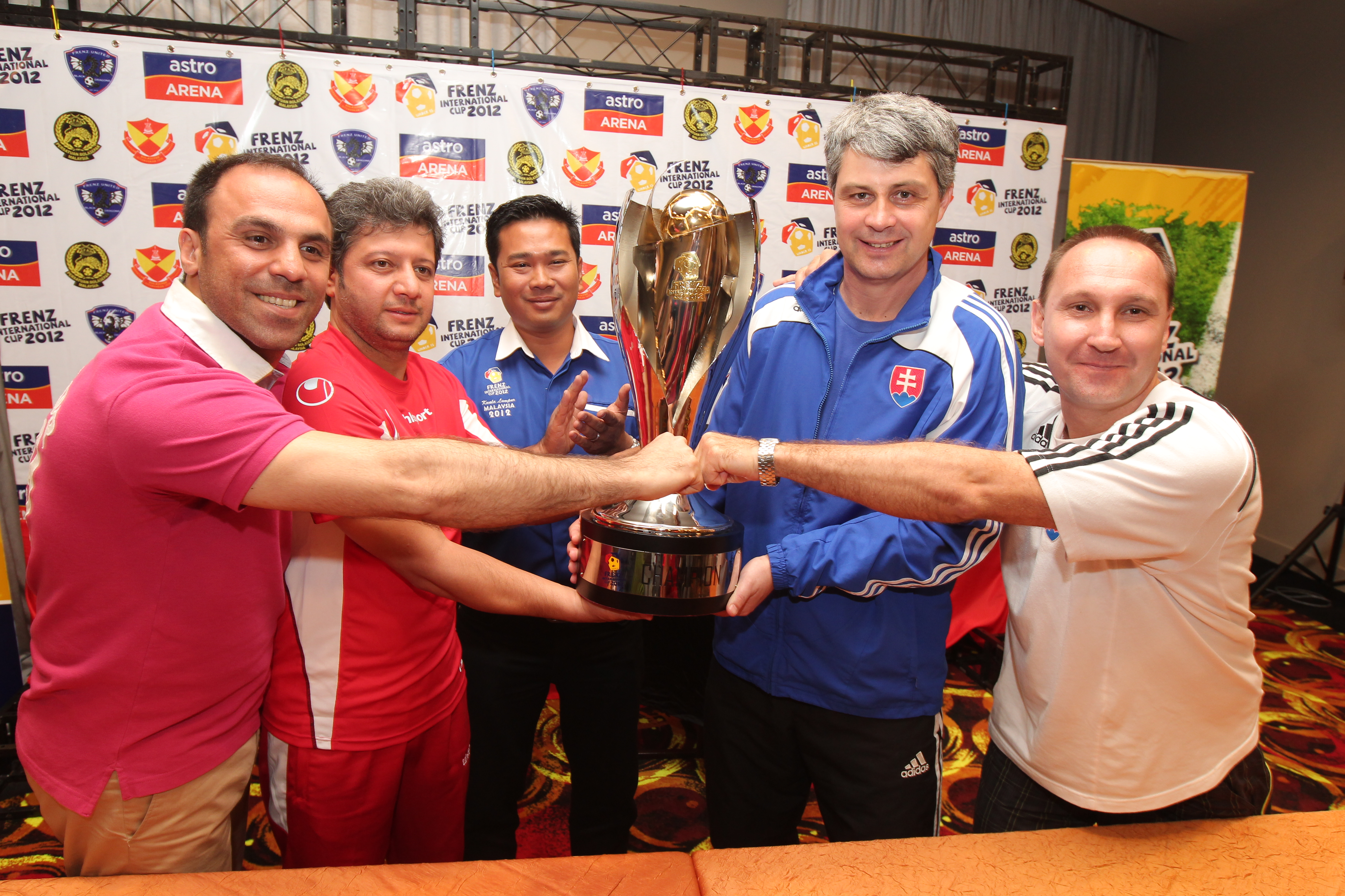 FUFA President, Dato' Noor Ihsan A Hamid(center) flanked by Slovakia U-15 representatives(right) namely Peter Stefanak(Head Coach) and Rastislav Sojak(Team Manager). On the left side were Persepolis FC representatives, namely Saied Tehrani Nejad(Head Coach) and Amir Moshiri(Team Manager) during the pre-final match conference.